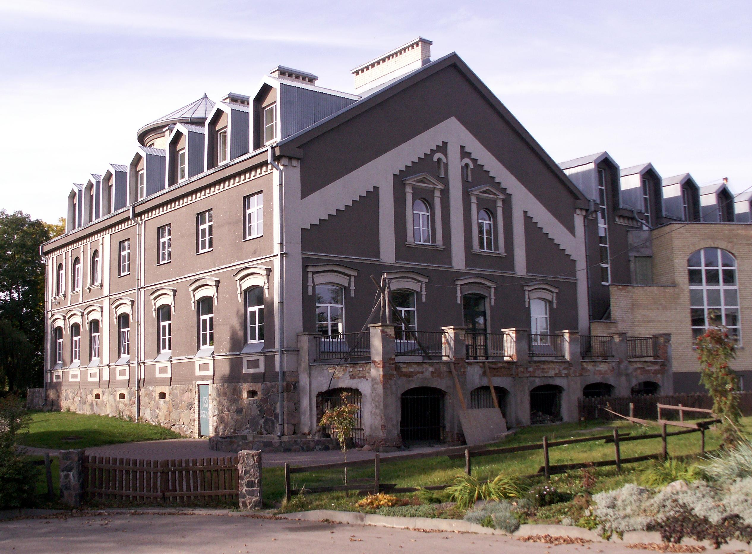 Ginkūnai, Zubow palace, Lithuania